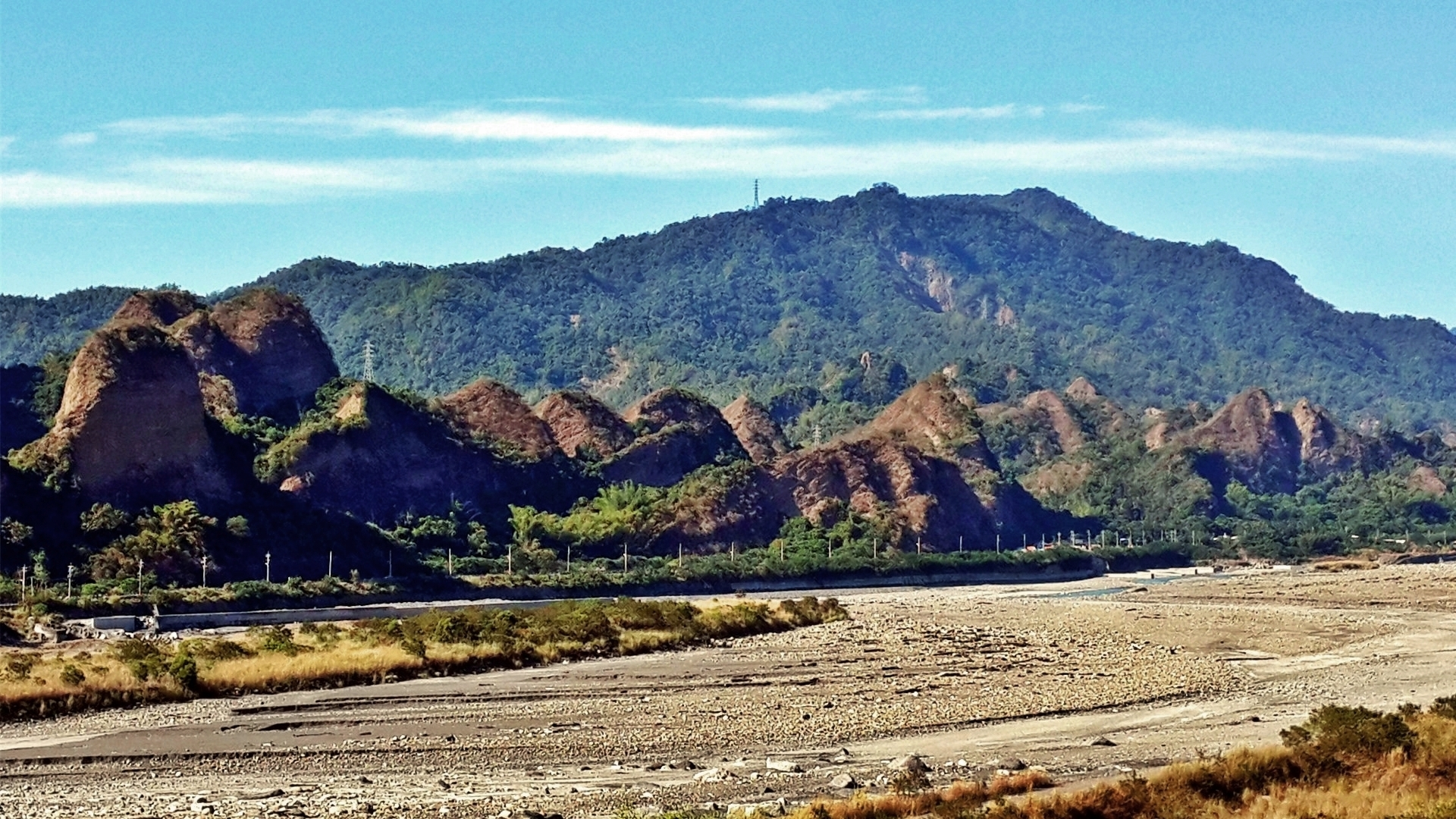 The 18 Arhats Mountain is the patron saint of Liugui District of Kaohsiung City,it is one of the three major flame mountains in Taiwan. Located at the County Highway 184 tunnel. As the gravel layer was washed by the rain, there were 72 independent peaks, and looking resembles human form from a distance, The ancients called it the 18 Arhats Mountain. These special conglomerate formations can provide information on orogenesis, erosion, adjustment of the crustal equilibrium, source areas of sediments, and weathering. Even on the issue of paleoclimate, the accumulation of gravel layer is an important basis for discussion.